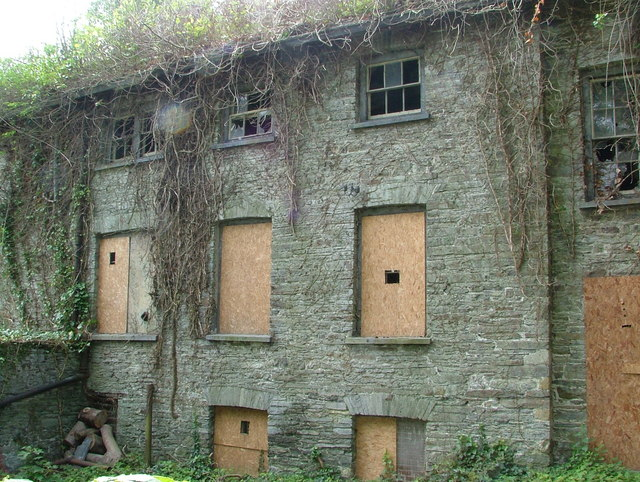 Castle Green House, Cardigan Castle (rear) This is a rare rear view of the Georgian house built within Cardigan Castle.